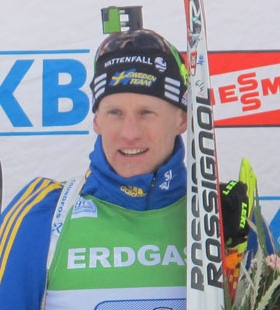 Carl Johan Bergman on Biathlon World Cup mixed team podium in 2010, Pokljuka